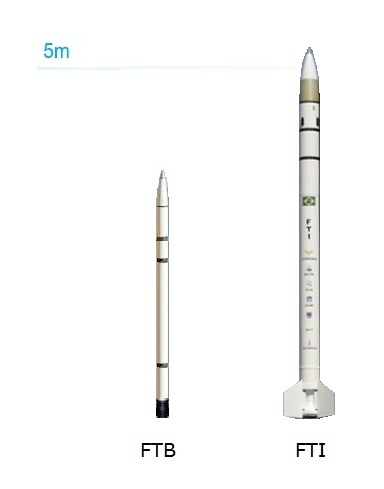 Brazilian Training rockets FTB and FTI shapes.